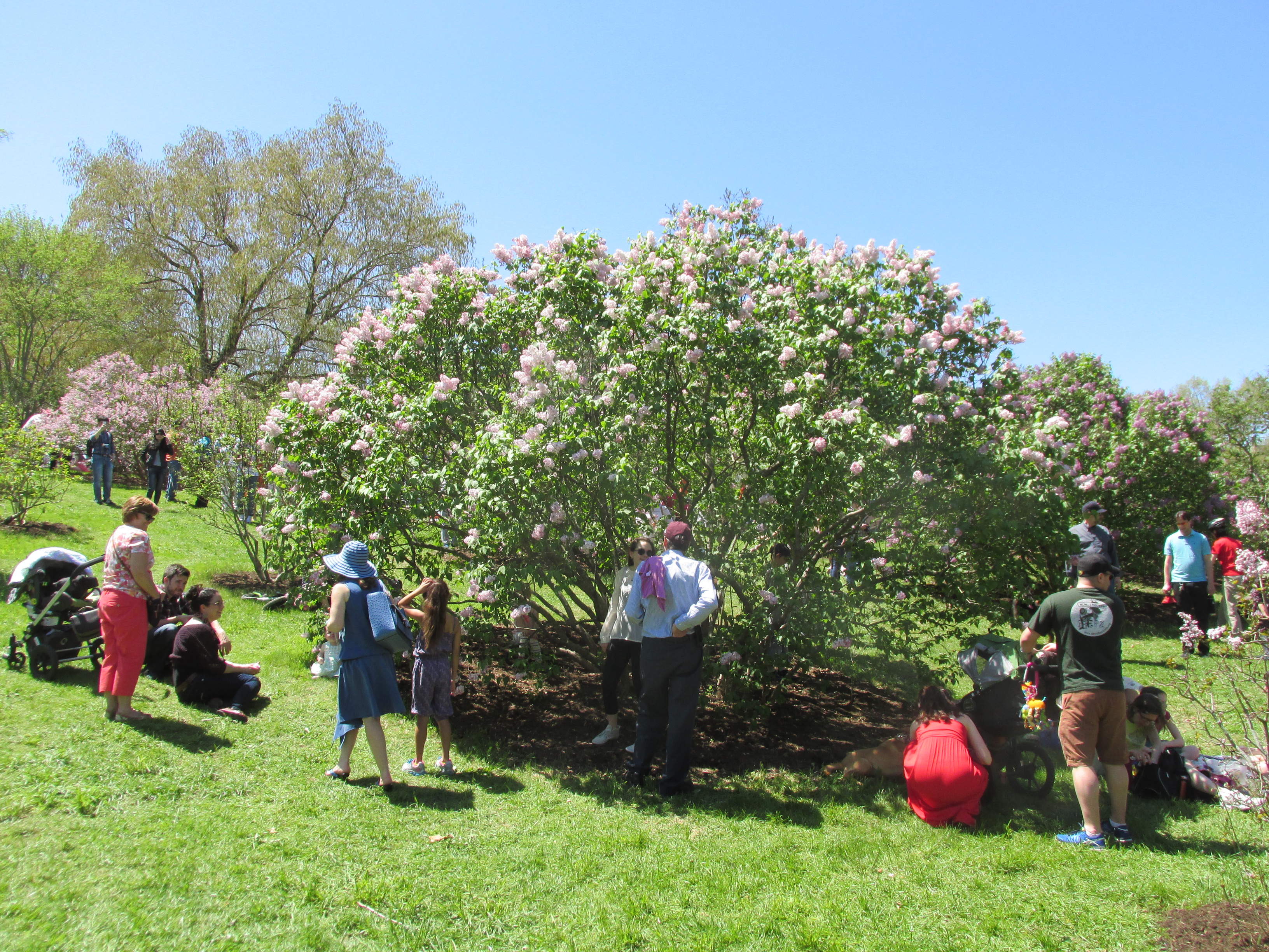 Lilac Sunday 2014, Arnold Arboretum, Jamaica Plain Massachusetts